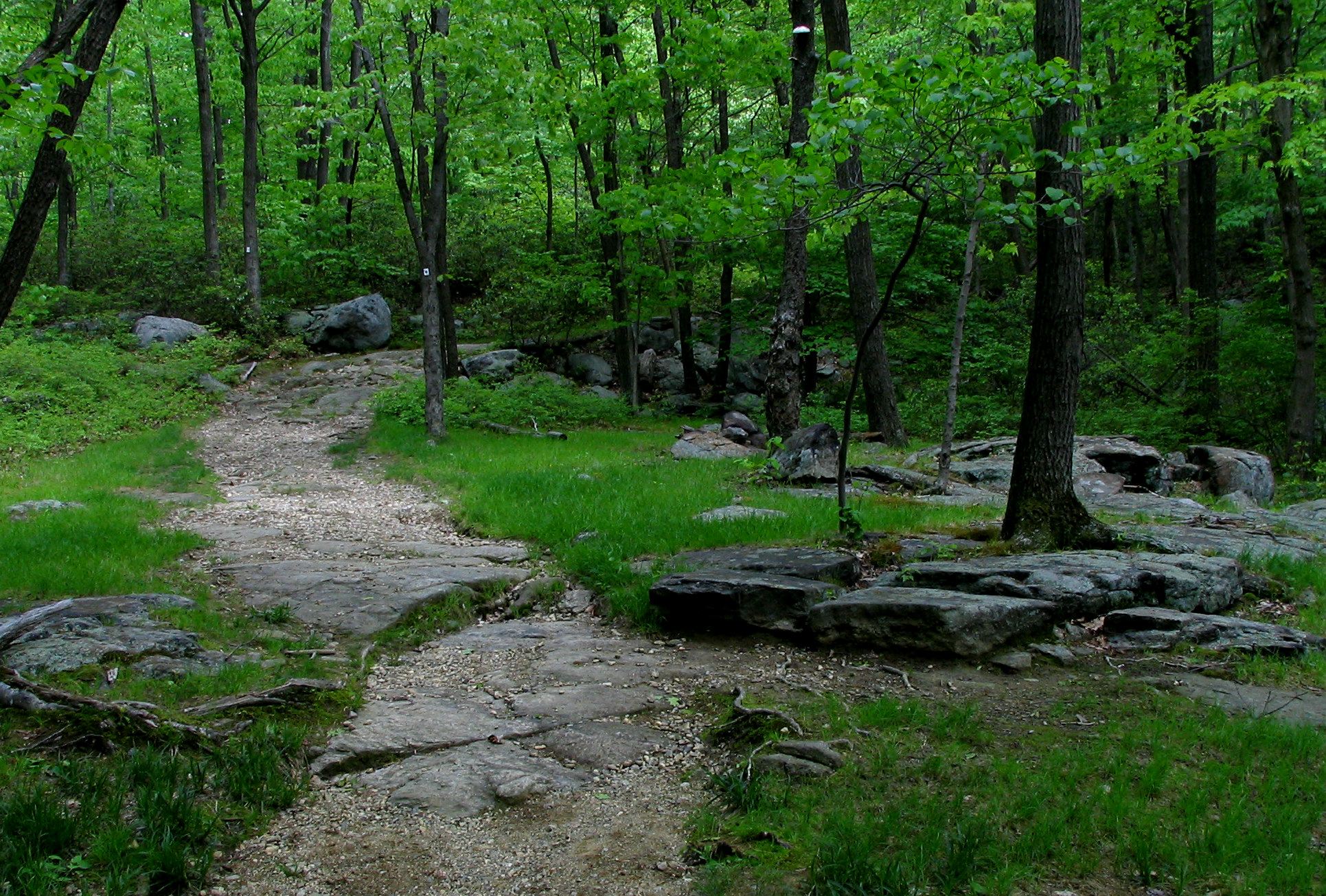 Seven Hills Trail, Harriman State Park, New York. Taken by User:Mwanner, 5/28/2005.